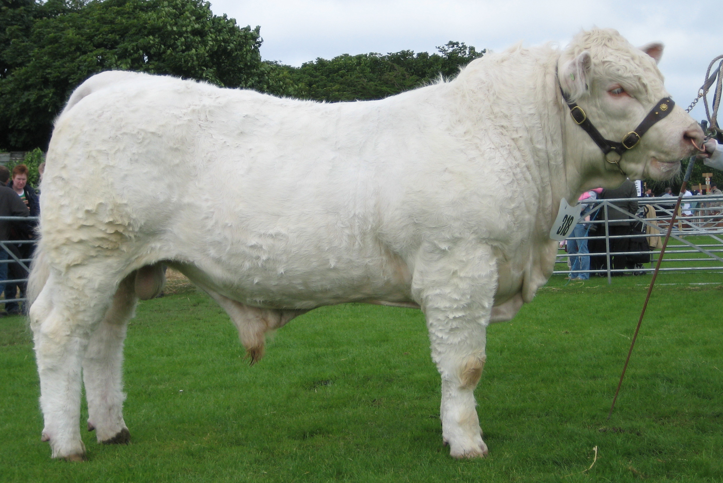 Charolais bull.